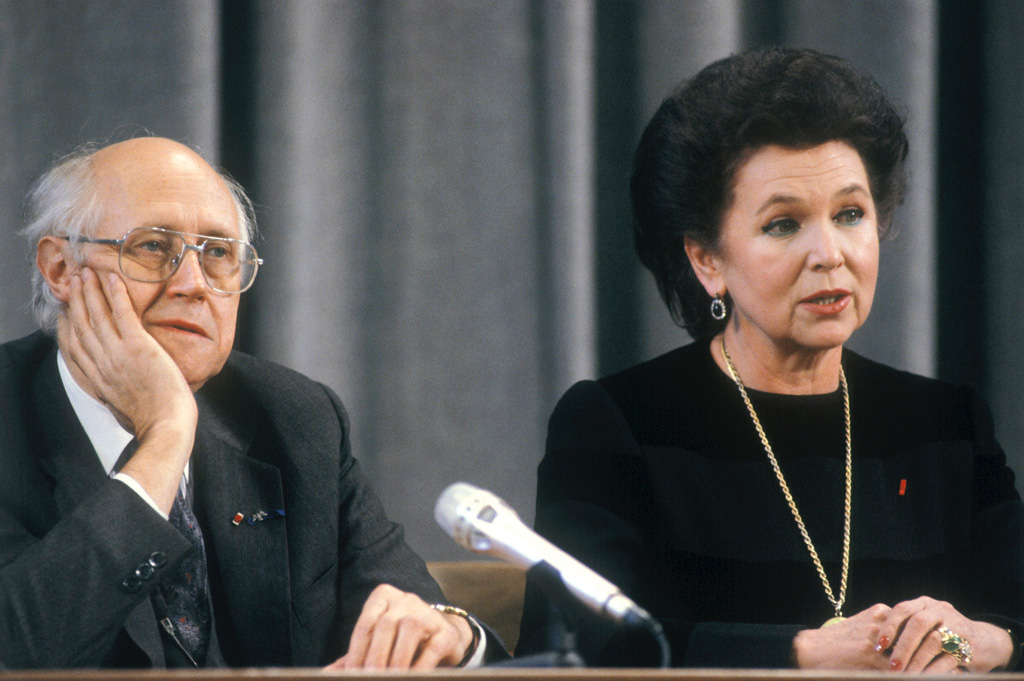 “Mstislav Rostropovich and Galina Vishnevskaya address news conference in Moscow”. Mstislav Rostropovich, renowned cellist and U.S. National Symphony Orchestra Conductor Laureate, and operatic star Galina Vishnevskaya, his wife, addressing a news conference at the U.S.S.R. Foreign Ministry press center, 1990.